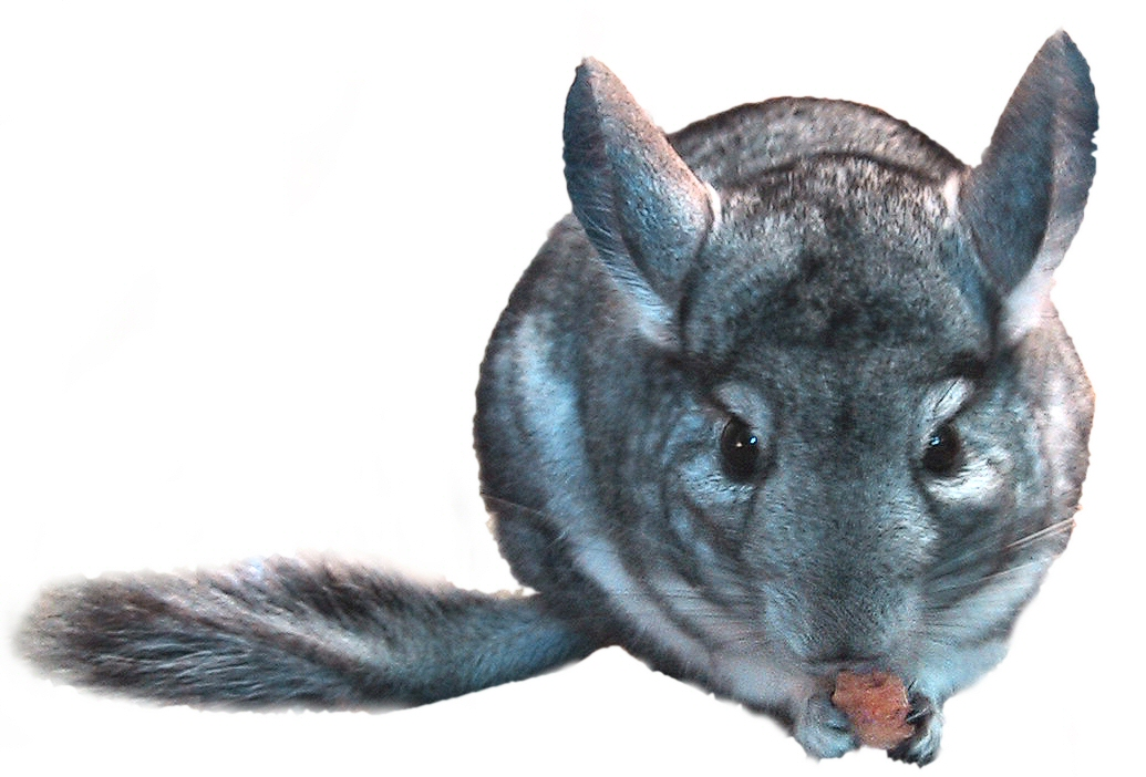 The chinchilla (domestic chinchilla) is using his anteriors limbs as little hands. Both (as on this picture) or only one. The long wiskers are mooving so fast you can't have them well focused. 5 years old standard grey male.